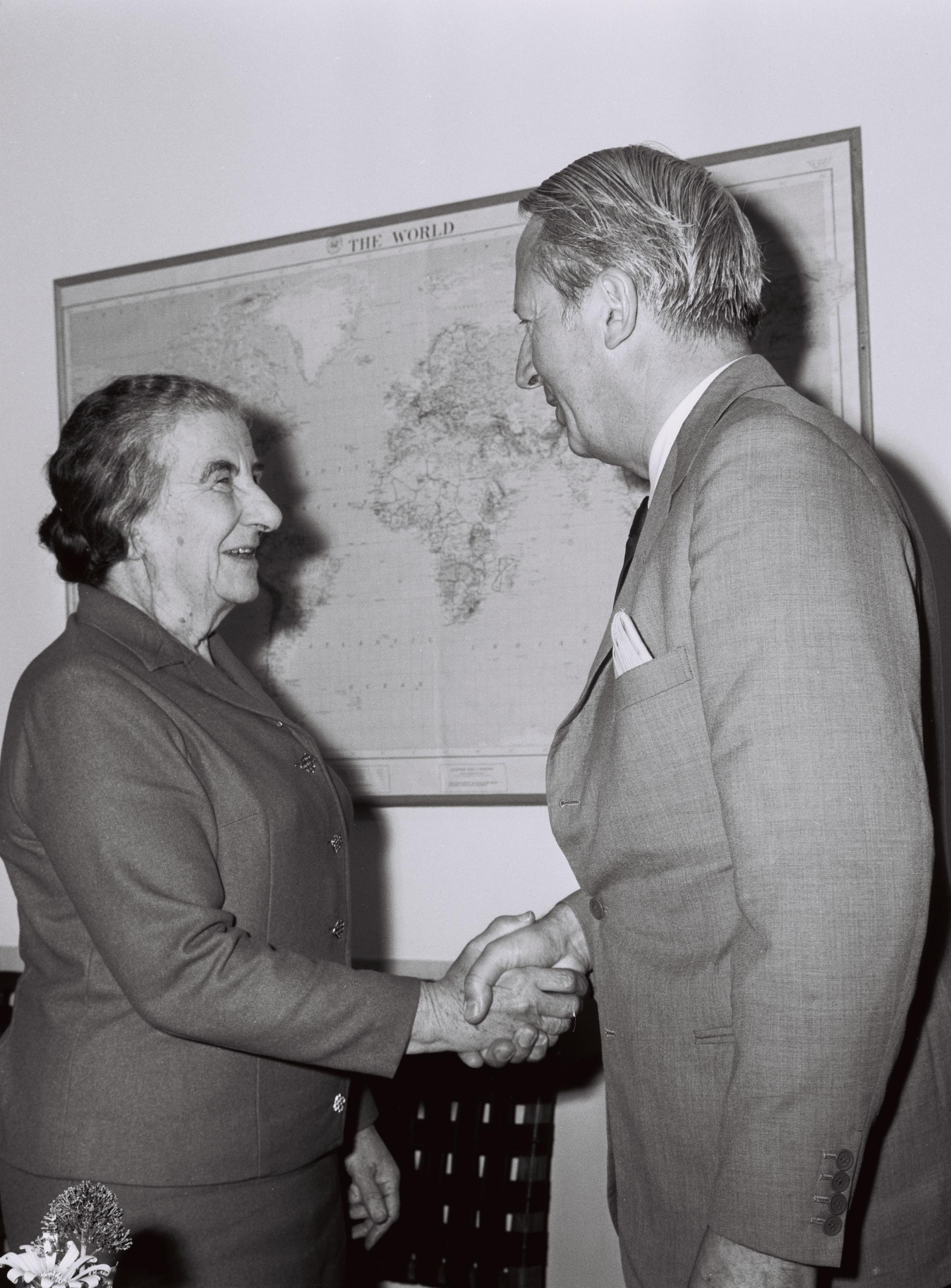 P.M. MRS. GOLDA MEIR WITH BRITISH CONSERVATIVE PARTY LEADER EDWARDHEATH IN HER OFFICE AT HAKIRYA, TEL AVIV